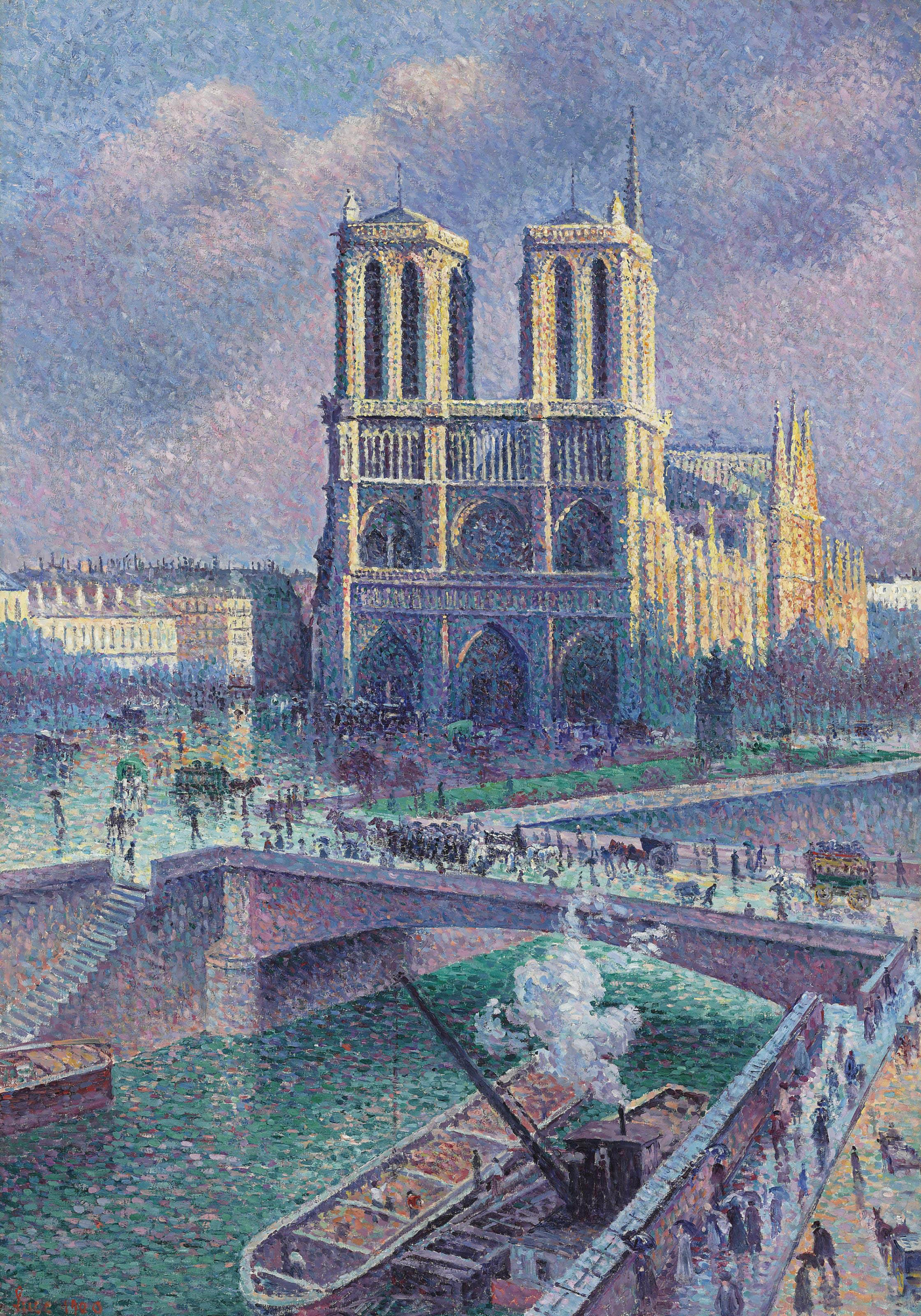 Notre-Dame de Paris. Signed and dated 'Luce 1900' (lower left). Oil on canvas, 116 x 81.3 cm